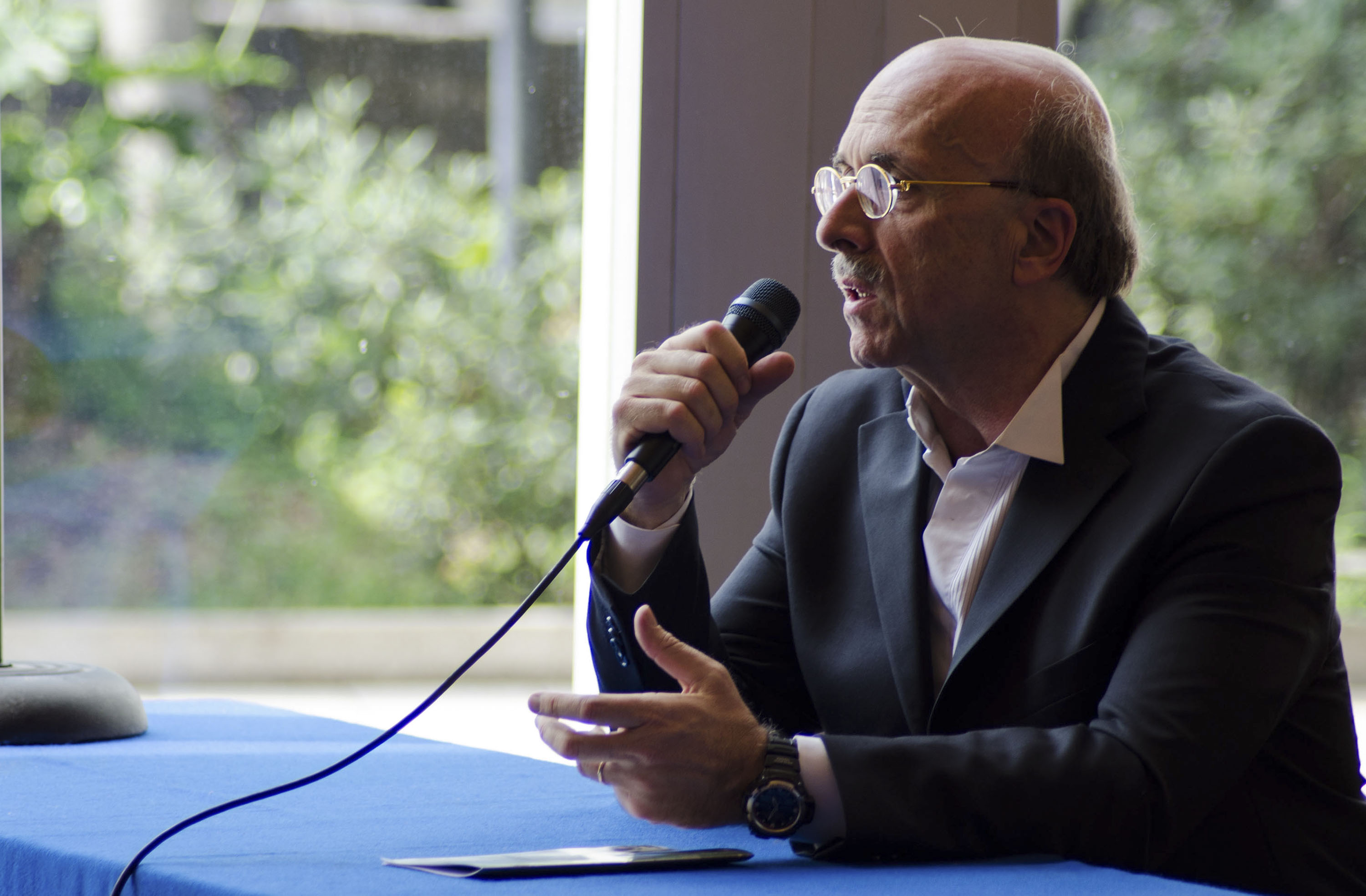 Guido Maria Guida in Mexico City. Saturday, 07 June 2014. Picture by Isaac Esteves / Secretaria de Cultura.